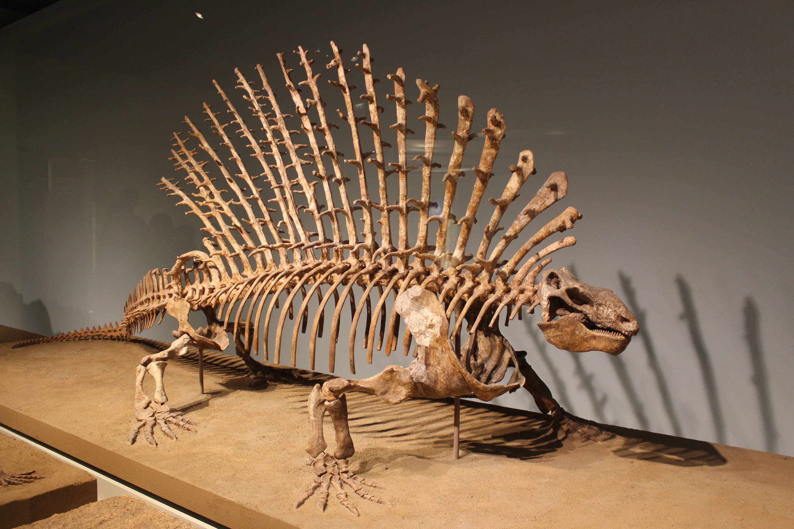 Skeletal mount of Edaphosaurus pogonias on display at the Field Museum of Natural History.